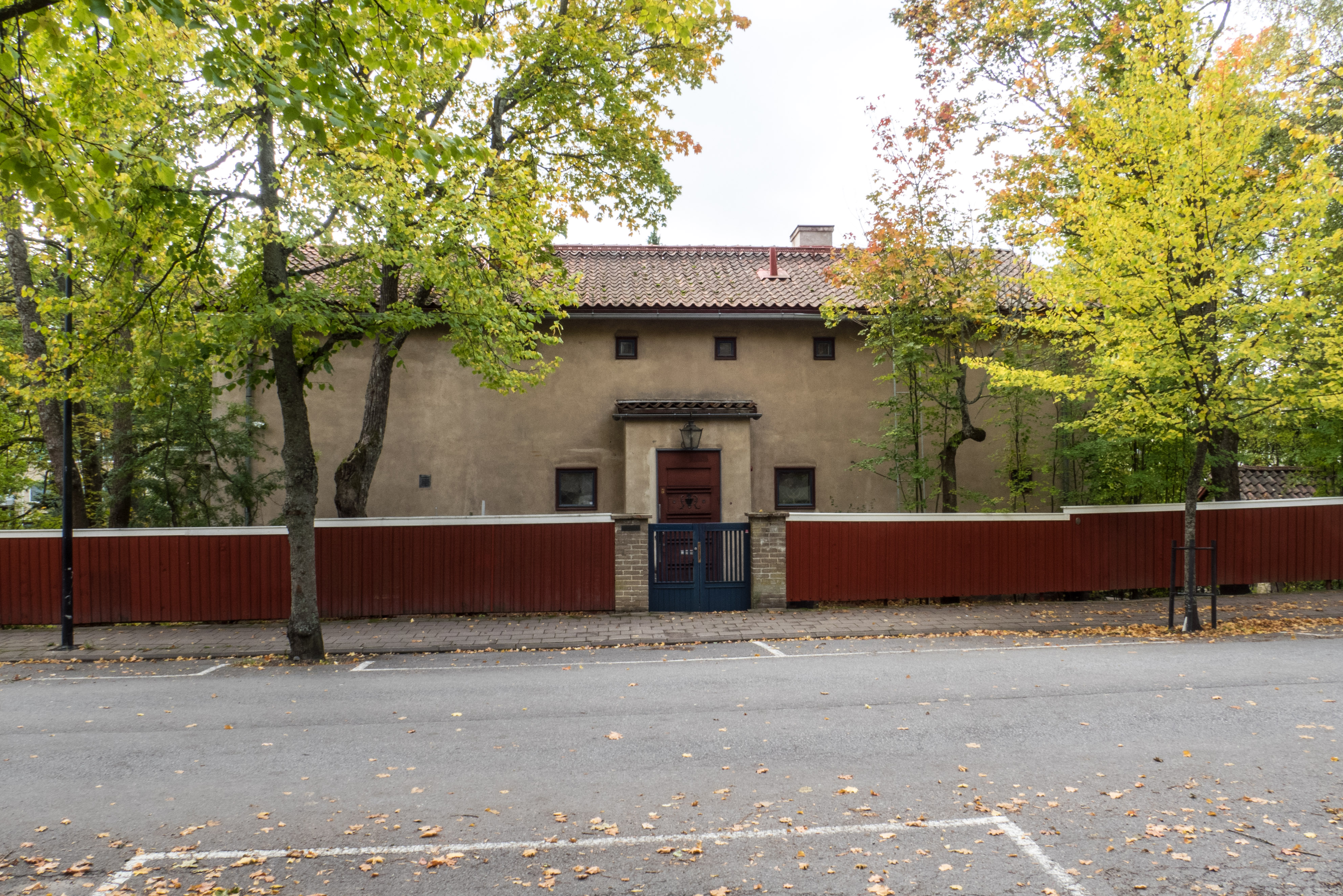 Casa Haartman in Naantali, Finland. Architect Erik Bryggman, 1926.